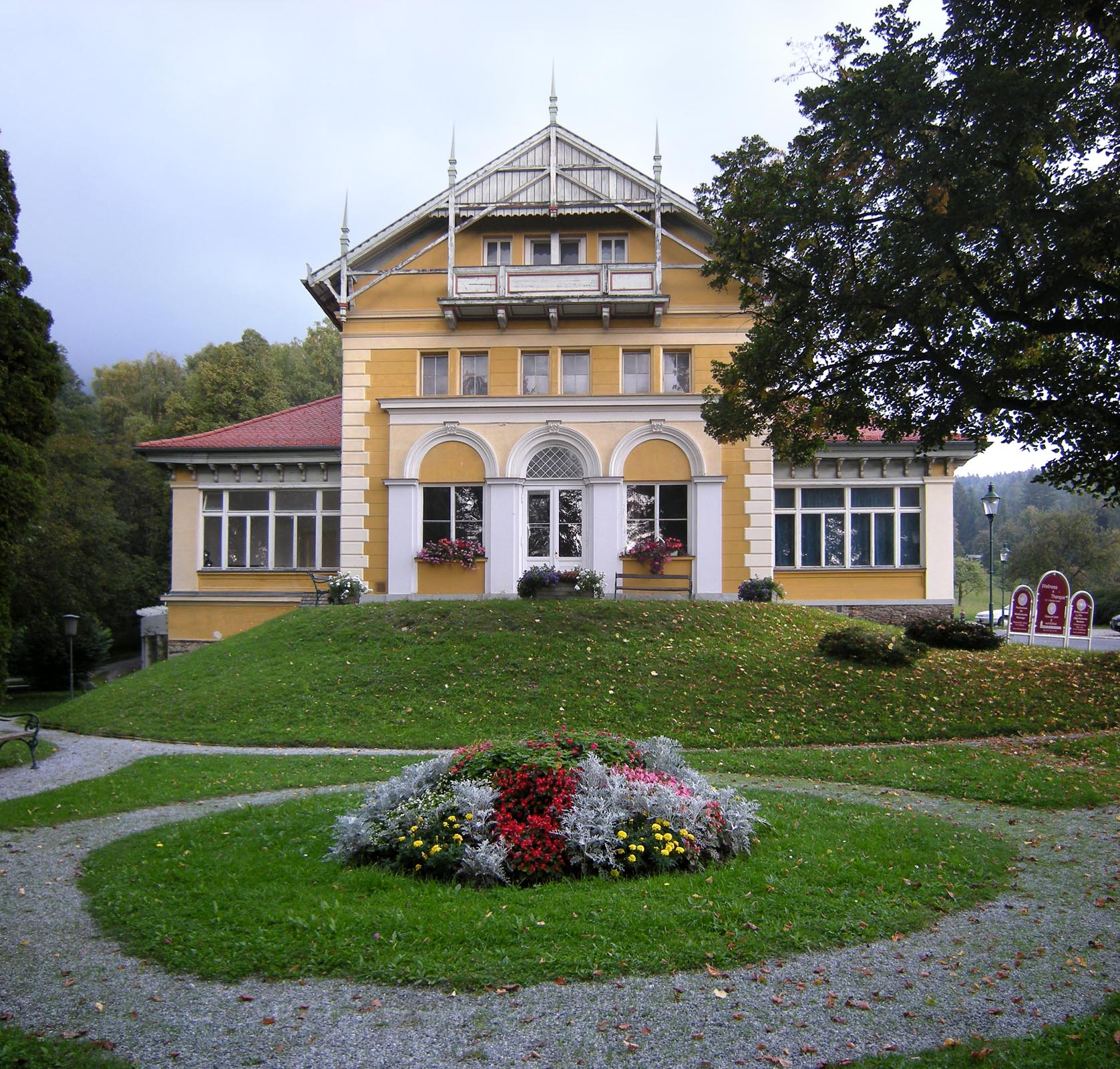 Sankt Radegund bei Graz 'Kurhaus' (stiched)